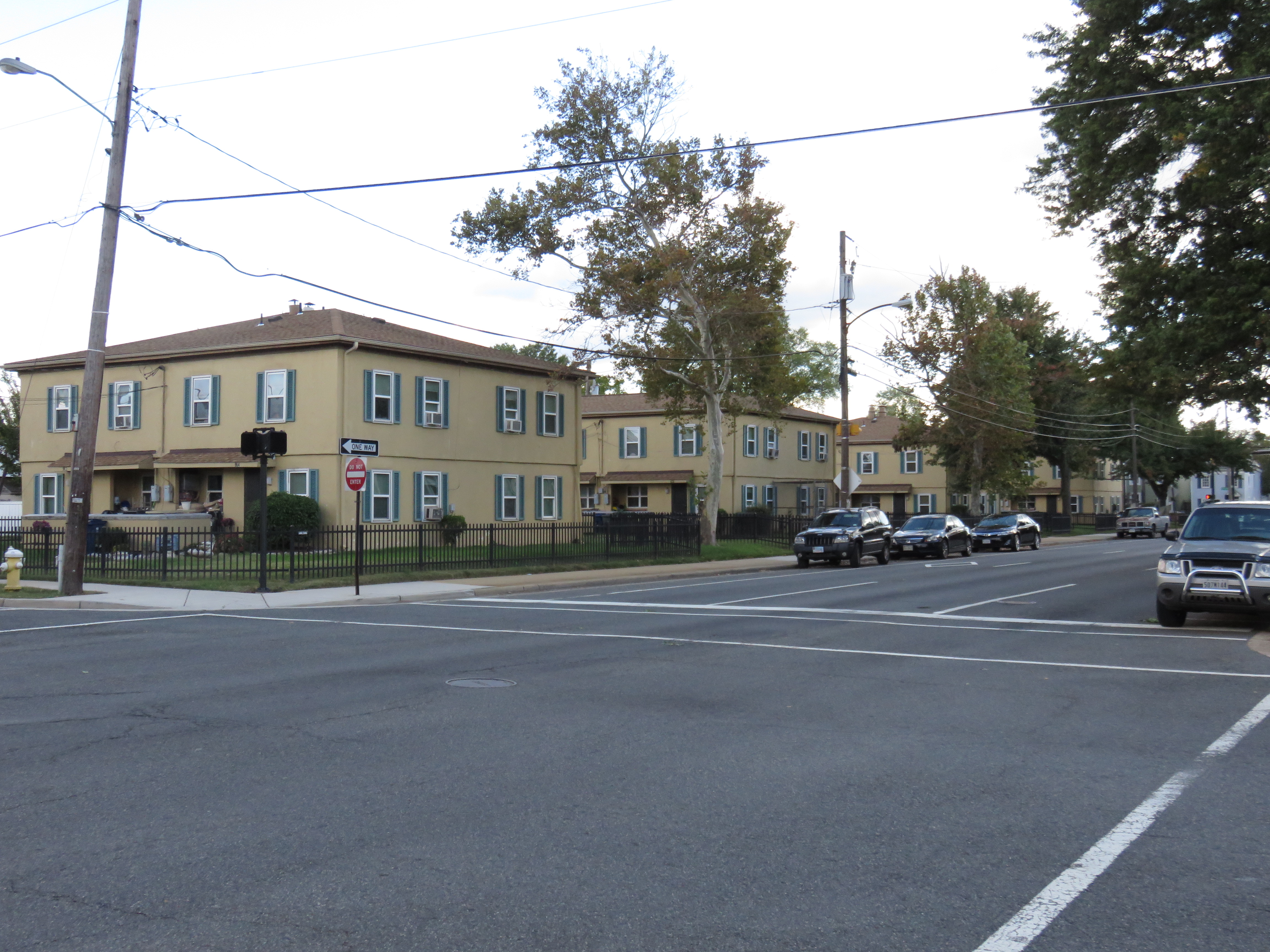 Ramsey Homes in Old Town Alexandria, Virginia in 2015. Built in 1941–2, they were demolished for redevelopment in 2018.